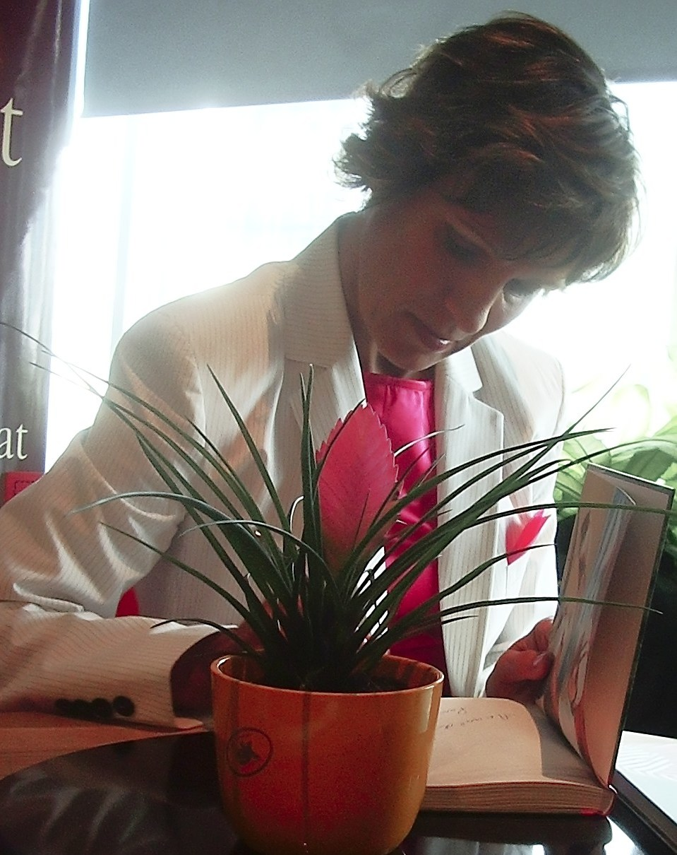 Erika Salumäe signing a book about her life "To stay alive".